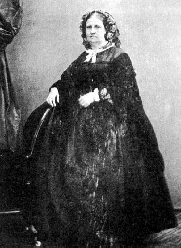 Maria Antonia of the Two Sicilies (1814-1898), Royal Princess of the Two Sicilies, Grand Duchess of Tuscany, consort of Leopold II of Habsburg-Lothringen, Grand Duke of Tuscany.